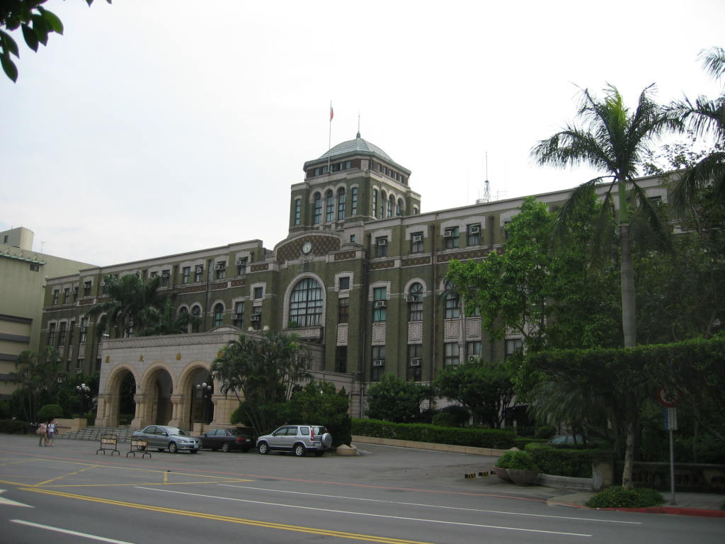 Judicial Yuan Building in Taipei City, Republic of China.